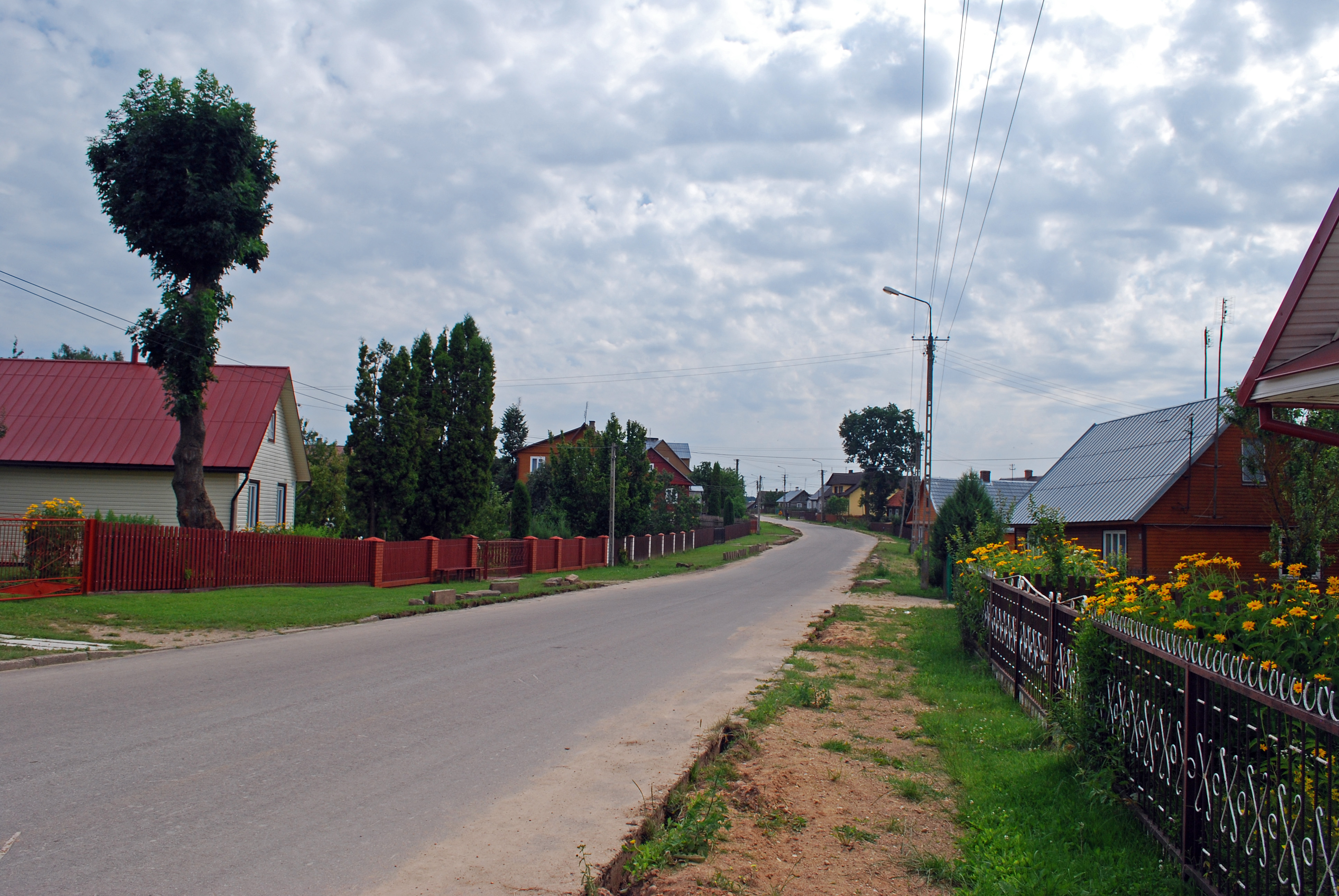 This photo from Podlaskie Voievodeship was taken during Polish Wikiexpedition 2009 set up by Wikimedia Polska Association. The making of this document was supported by Wikimedia Polska. Główna droga w Wierzchlesiu.